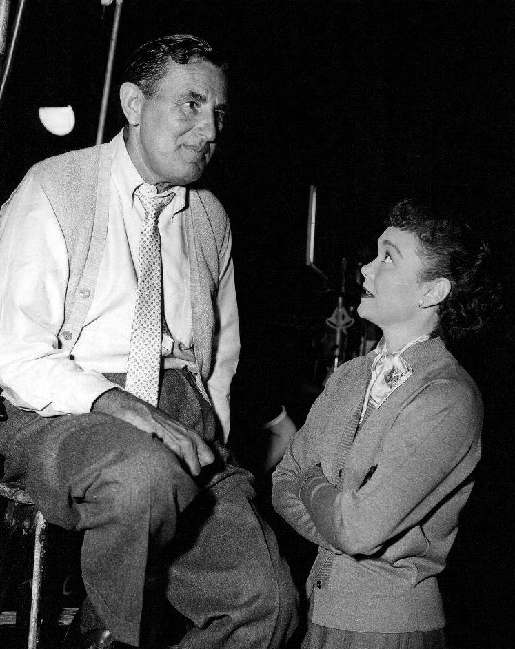 Photo of Jane Wyman and director Sidney Lanfield having a discussion on the set of Fireside Theater, which Wyman began work on in 1955.